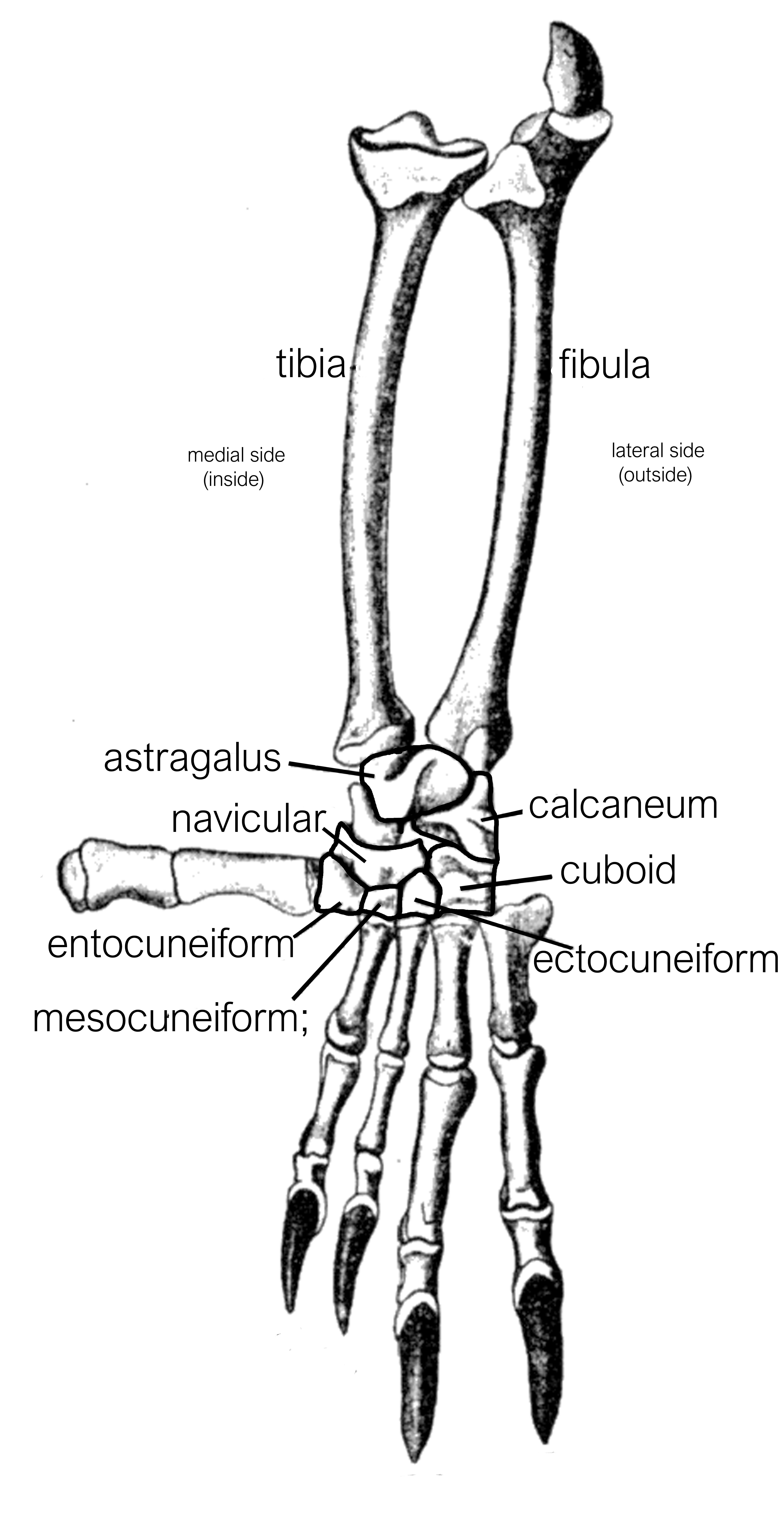 Fig. 68.—Bones of leg and foot of Phalanger. ast, Astragalus; calc, calcaneum; cub, cuboid; ect.cun, ecto-cuneiform; ent.cun, ento-cuneiform; fb, fibula; mes.cun, meso-cuneiform; nav, navicular; tib, tibia; I-V, first to fifth toes. (After Owen.)